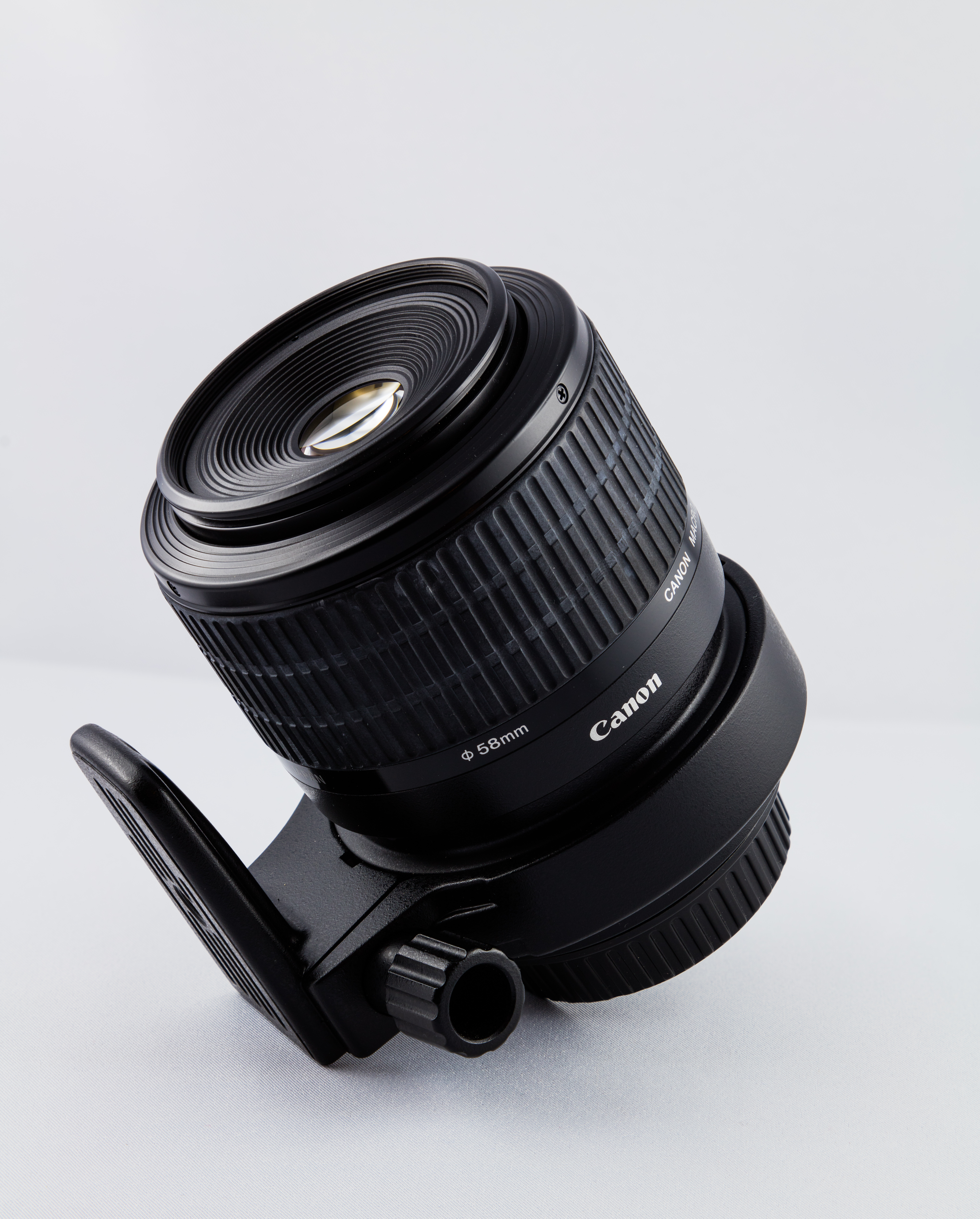 Canon MP-E 65mm F2.8 1-5x Macro